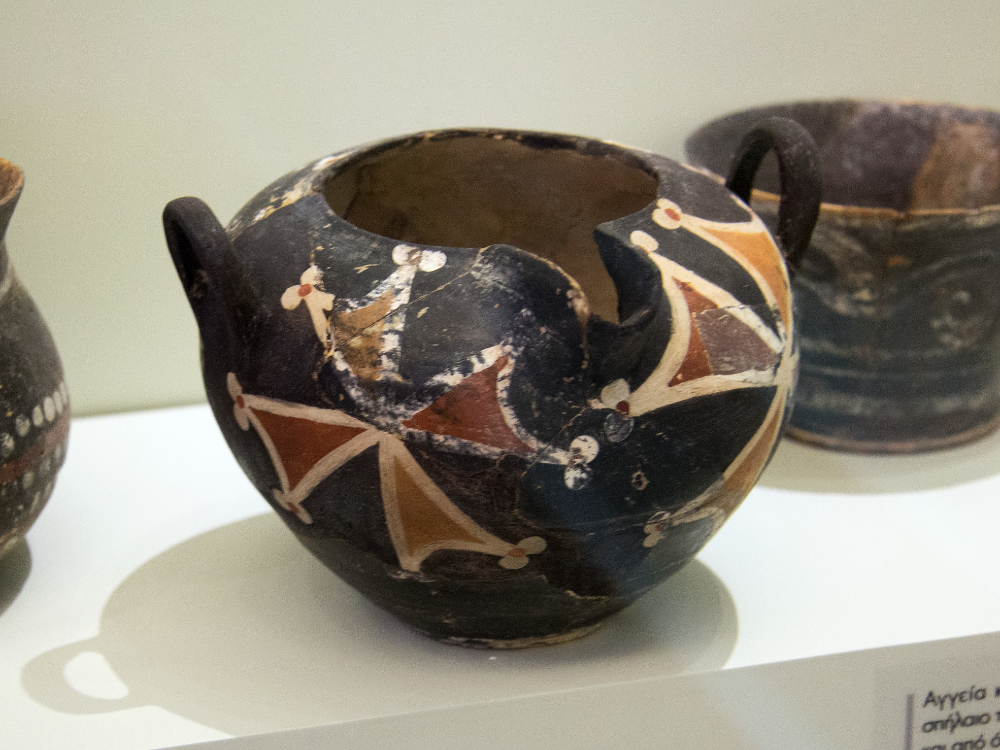 Kamaes ware vessel from the sacred Kamares cave, 1900-1700 BC. Archaeological Museum of Heraklion.